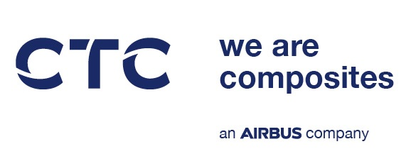 CTC GmbH - Logo